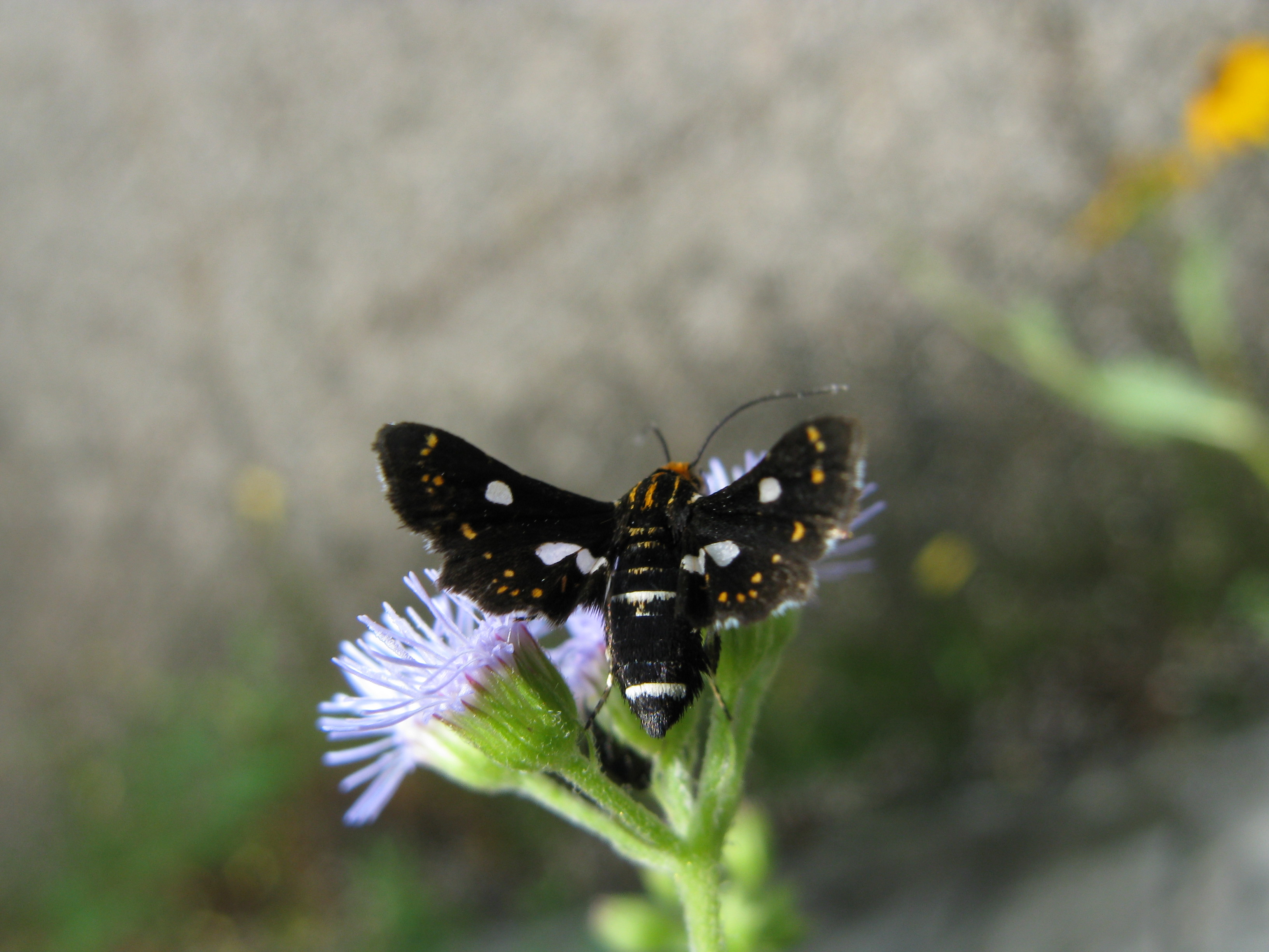 Thyris usitata